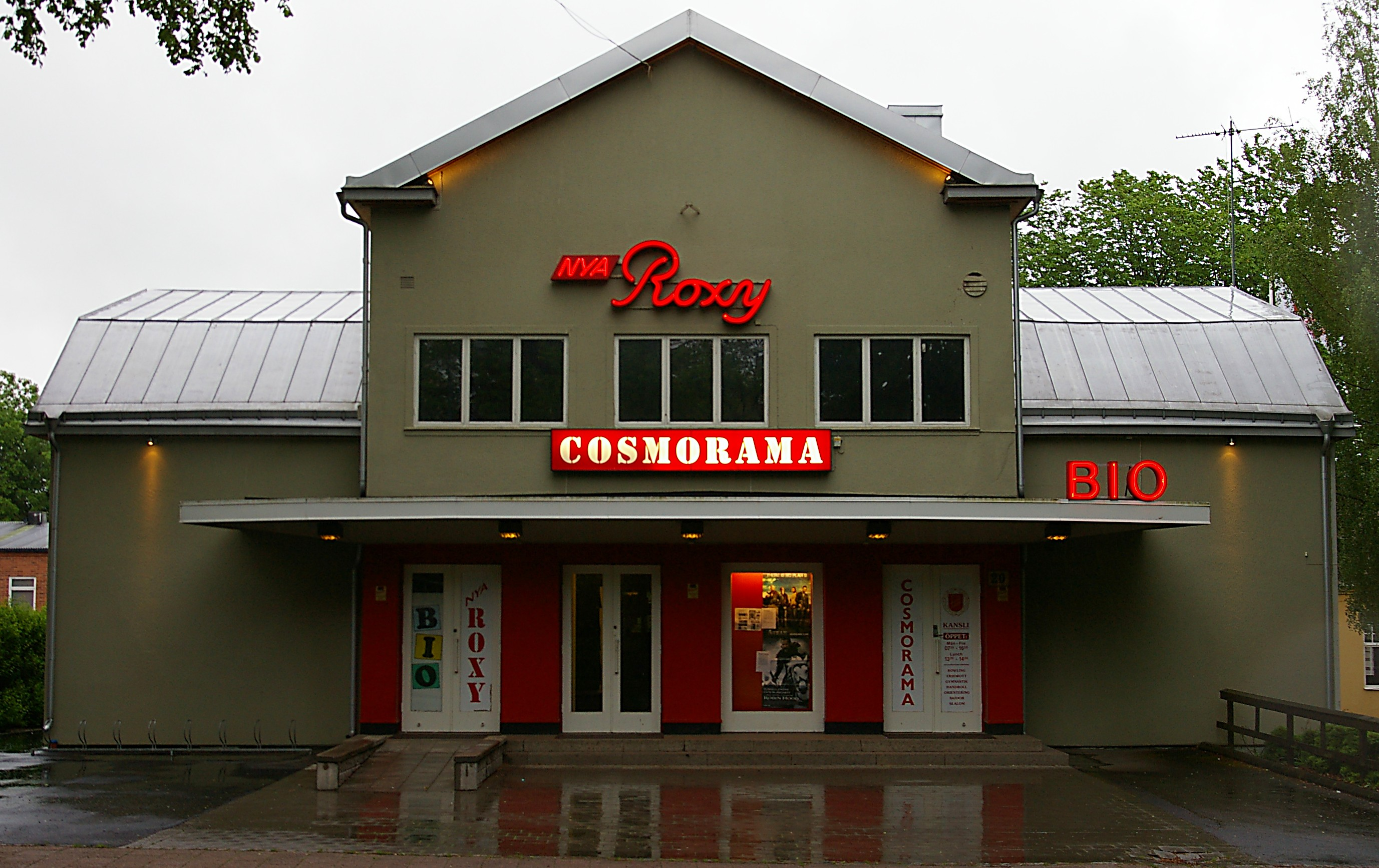 Cosmorama - cinema in Falköping, former Skaraborg county, Västergötland, Västra Götaland county, Sweden.